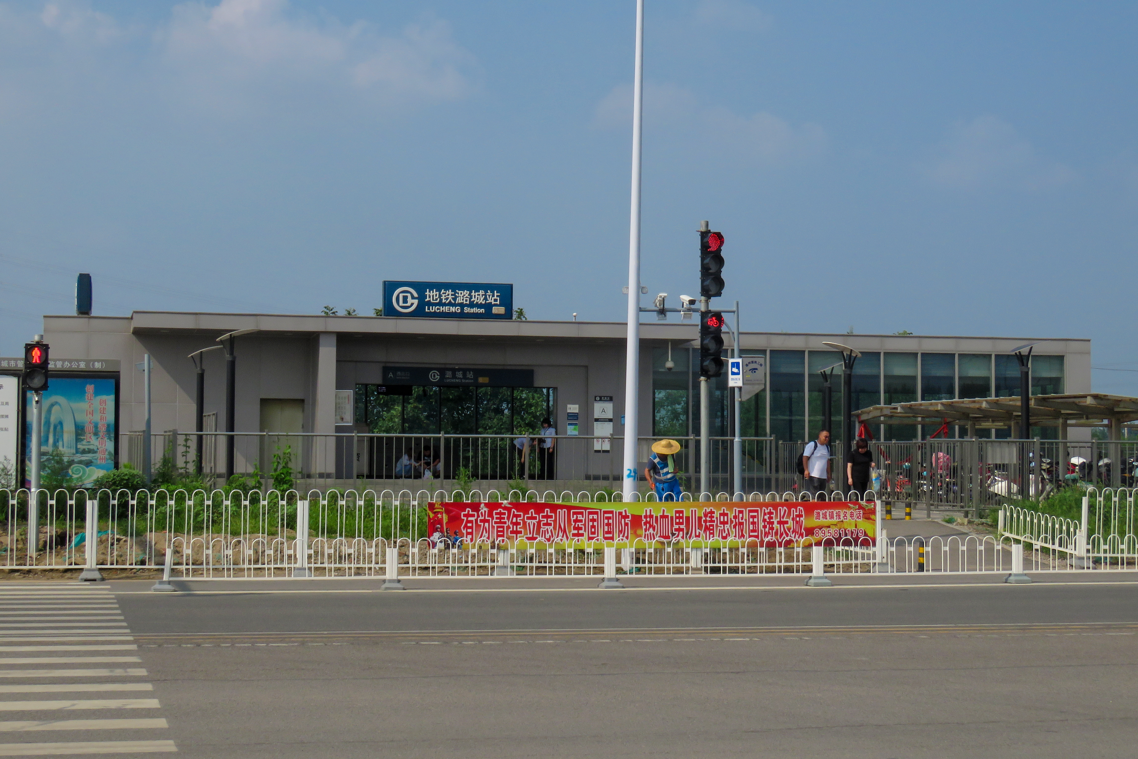 Finally made it to the eastern terminus of Line 6 after a 15-minute walk from Miaoshang village.